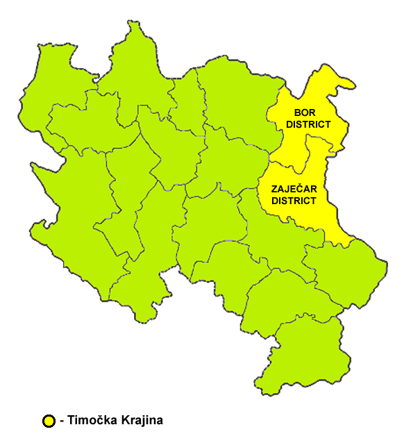 Map of Timočka Krajina.